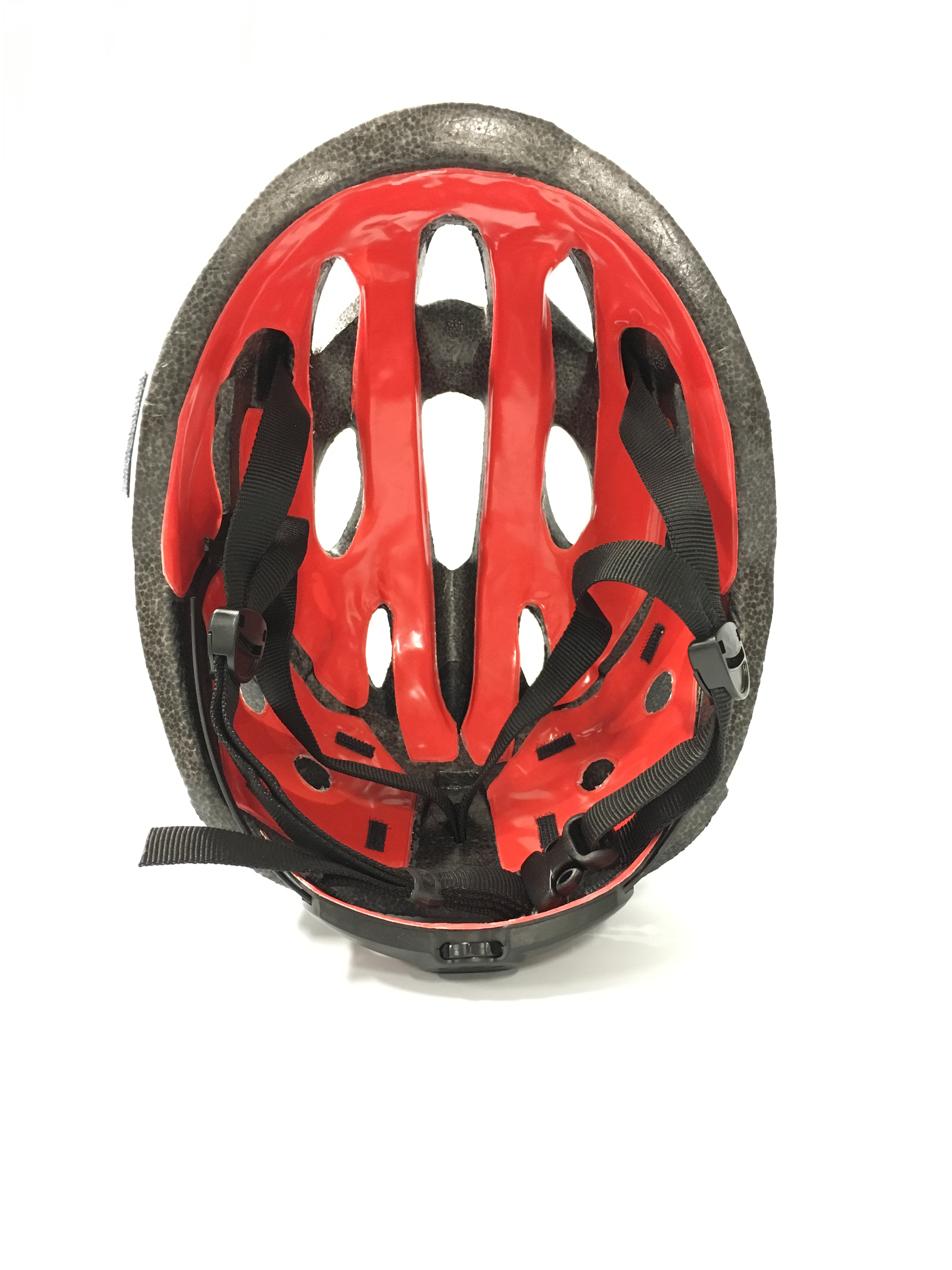 Shield-x BX-I, invisible enhancement, place inside helmet